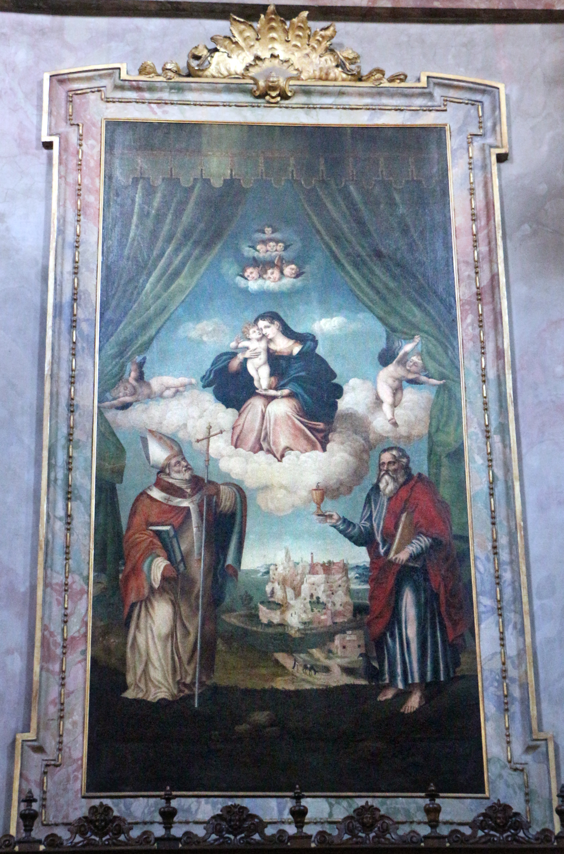 Santi Bartolomeo e Stefano (Bergamo)